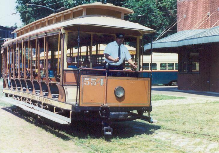 Baltimore Traction 554, a 9-bench open car built by Brownell in 1896, is brought into the loading area at the Baltimore Streetcar Museum on August 11, 2002.